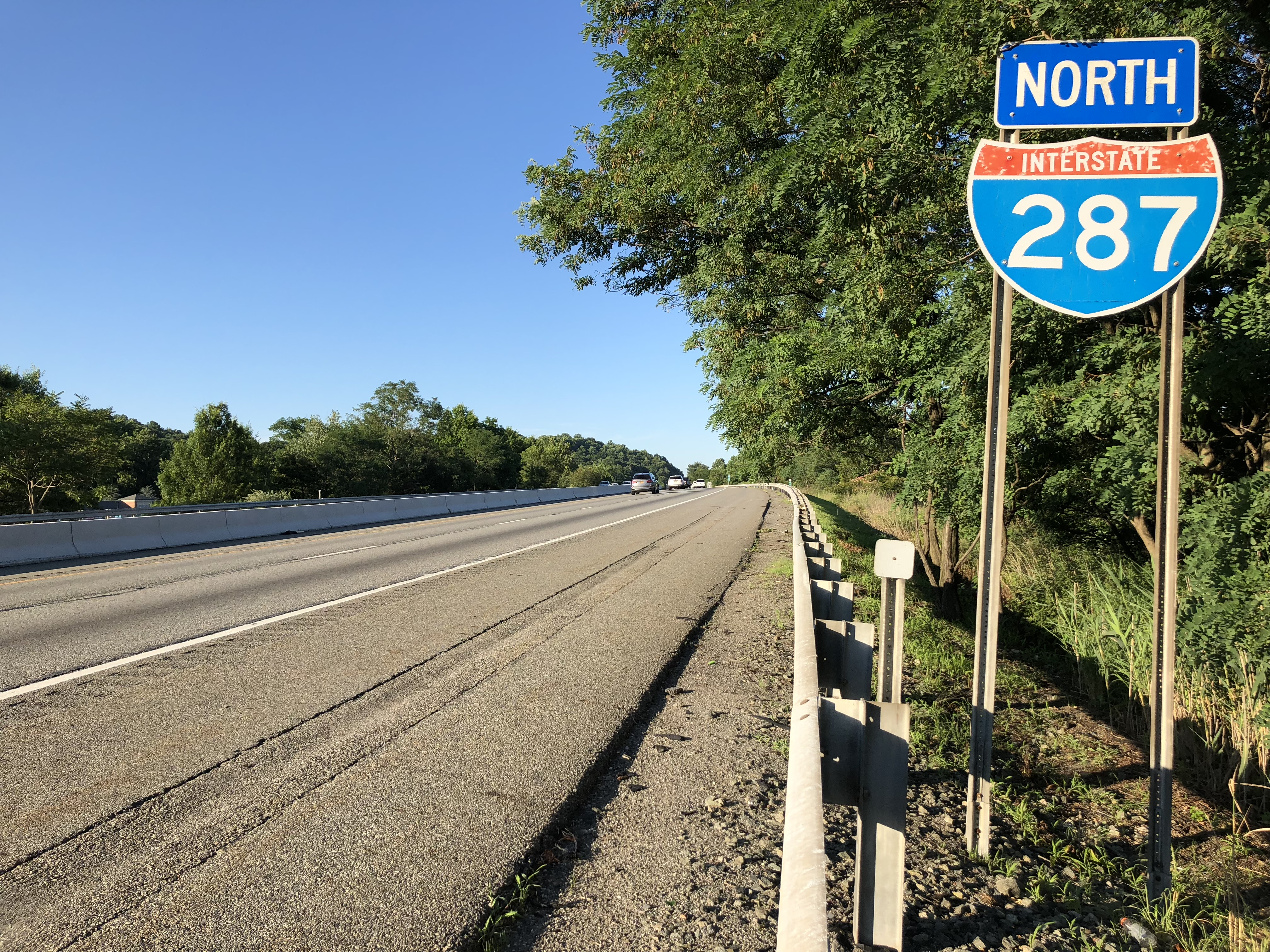 View north along Interstate 287 just north of Exit 59 in Franklin Lakes, Bergen County, New Jersey